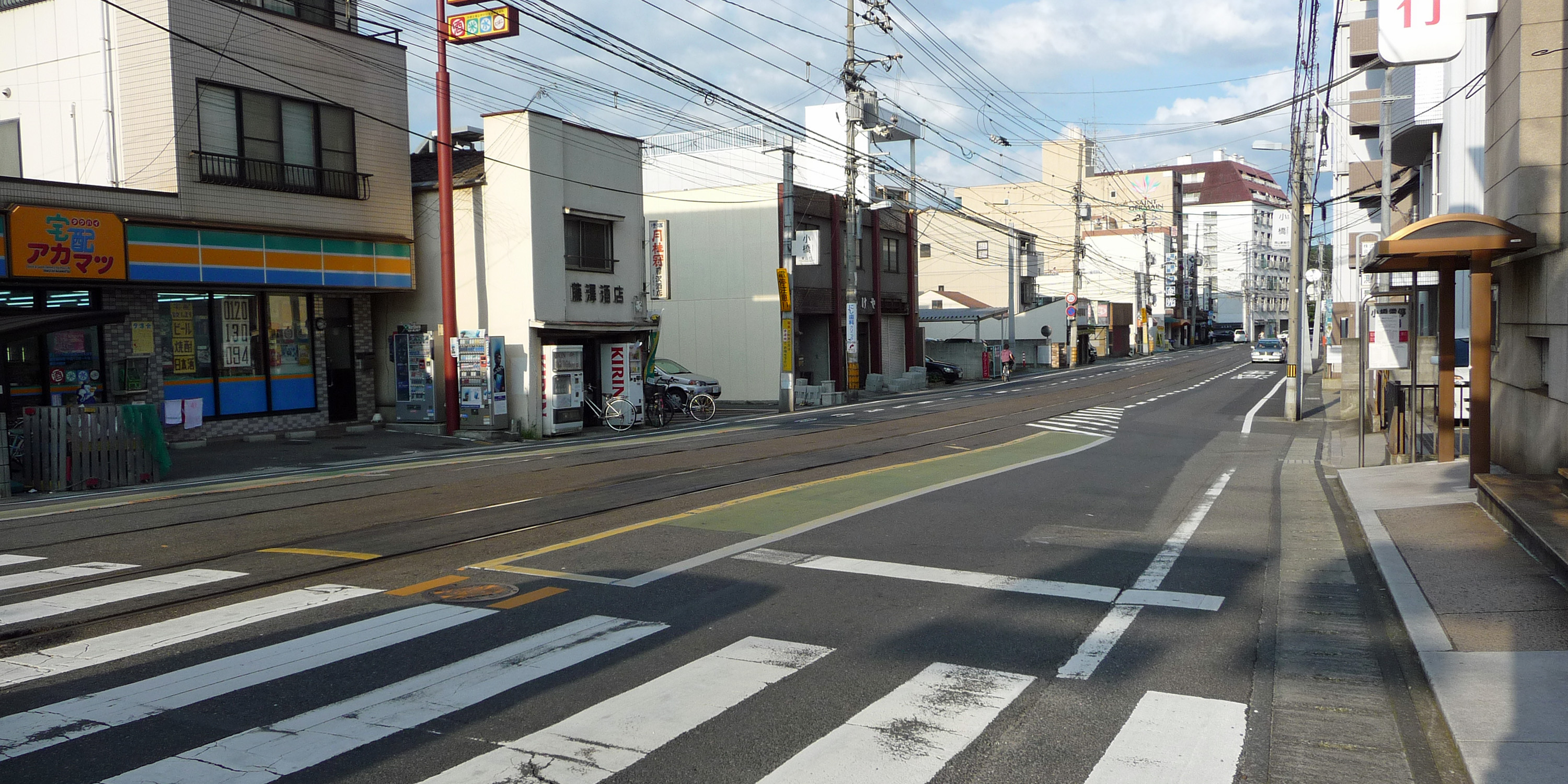 Kobashi Station.